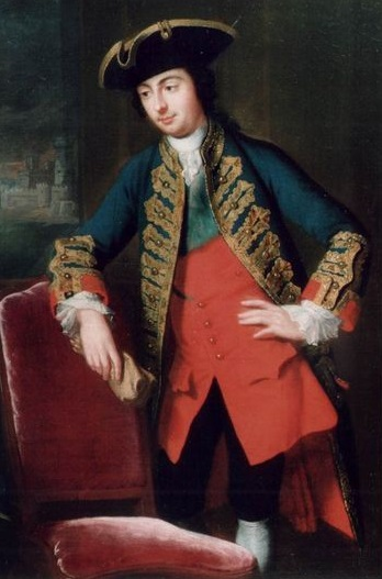 Cropped portrait of Commodore Digby Dent